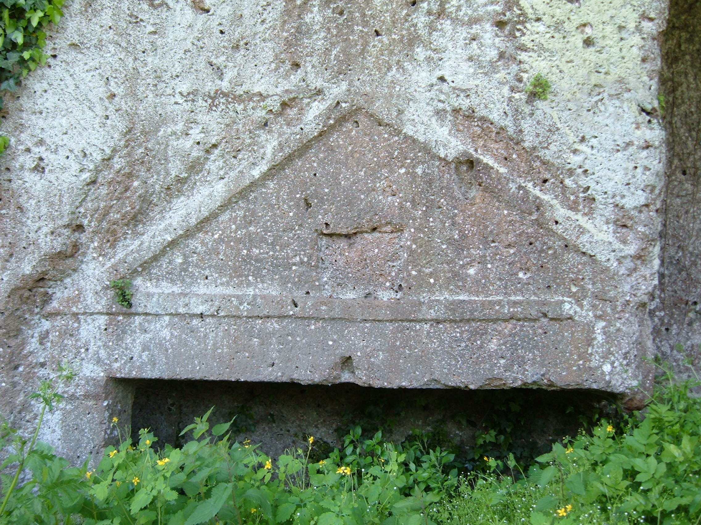 Necropolis of Sutri